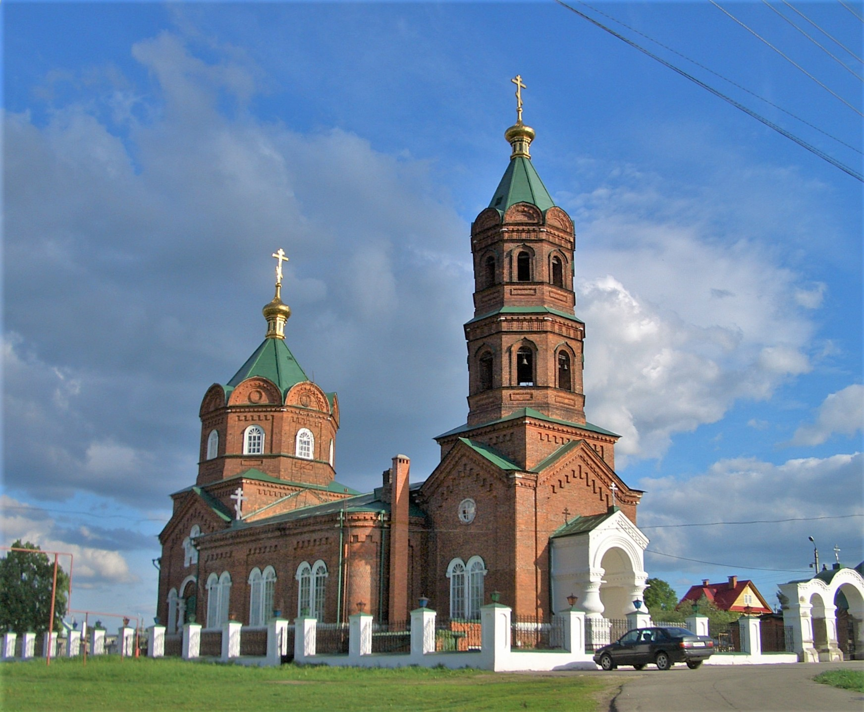 Church of Holy Life-Giving Trinity in Bezvodnoe, Nizhny Novgorod Oblast)